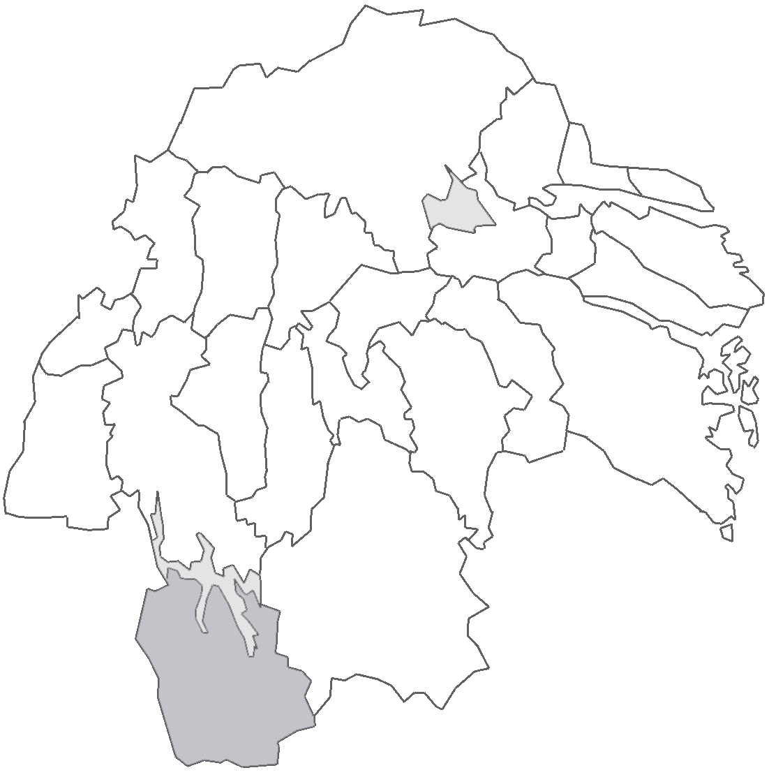 Map describing the location of Ydre Hundred in Östergötland County, Sweden.